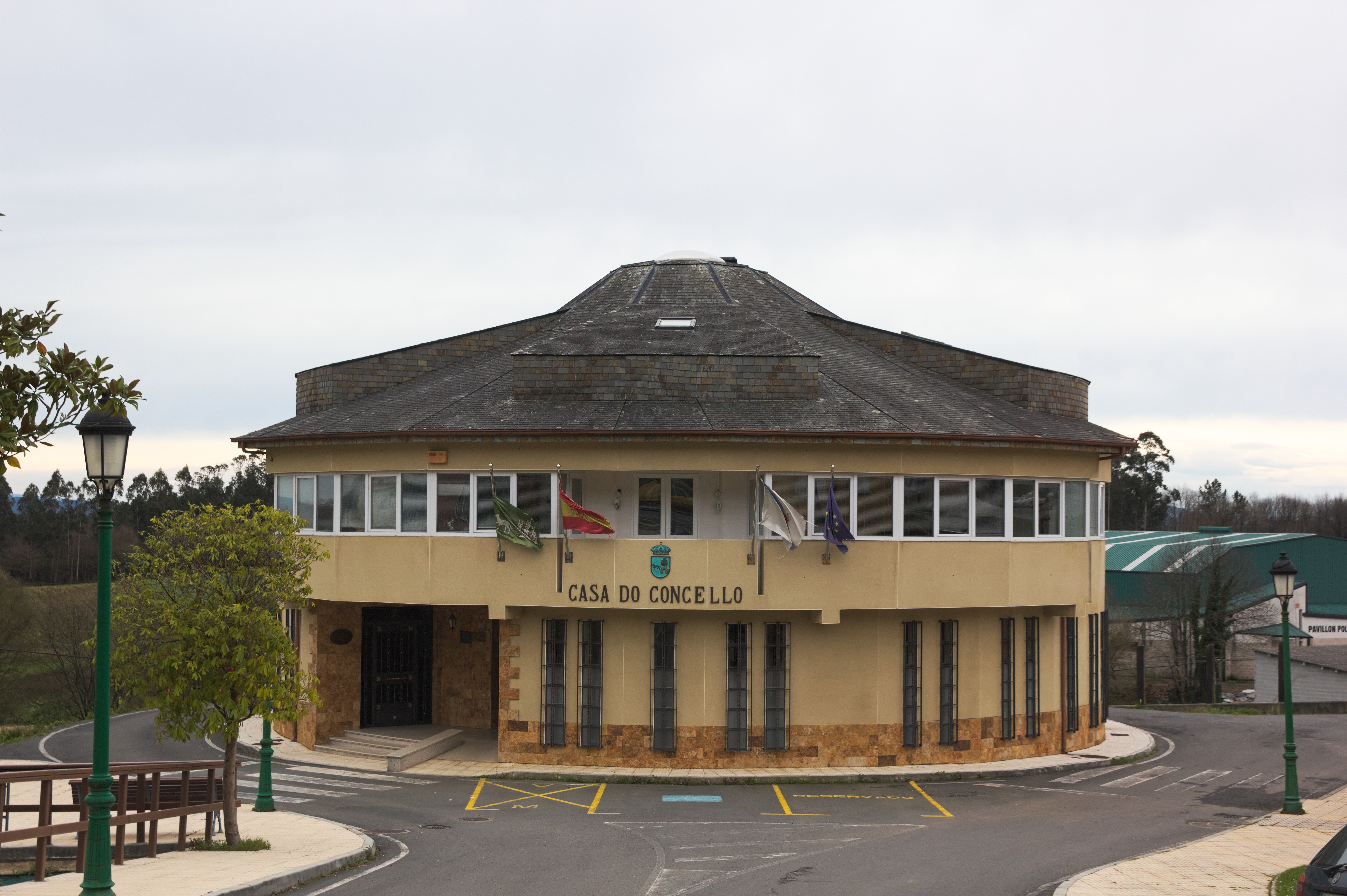 Town Hall of Trazo, in Viaño Pequeno, Galicia, Spain.